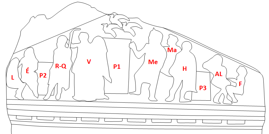 Diagram of the pediment of the temple of Quirinus shown on a fragment of Hartwig's Relief. V : Victoire Ma : Mars R-Q : Romulus-Quirinus Me : Mercure H : Hercule É : Énée L : Lavinia AL : Acca Larentia F : Faustulus P1-P2-P3 : Portes du temple D'après : - Françoise-Hélène Massa-Pairault, Romulus et Remus : réexamen du miroir de l’Antiquarium Communal, MEFRA, 2011 - Rita Paris, Propaganda e iconografia : una lettura del frontone del tempio di Quirino sul frammento del « Rilievo Harwig » del Museo Nazionale Romano, 1988